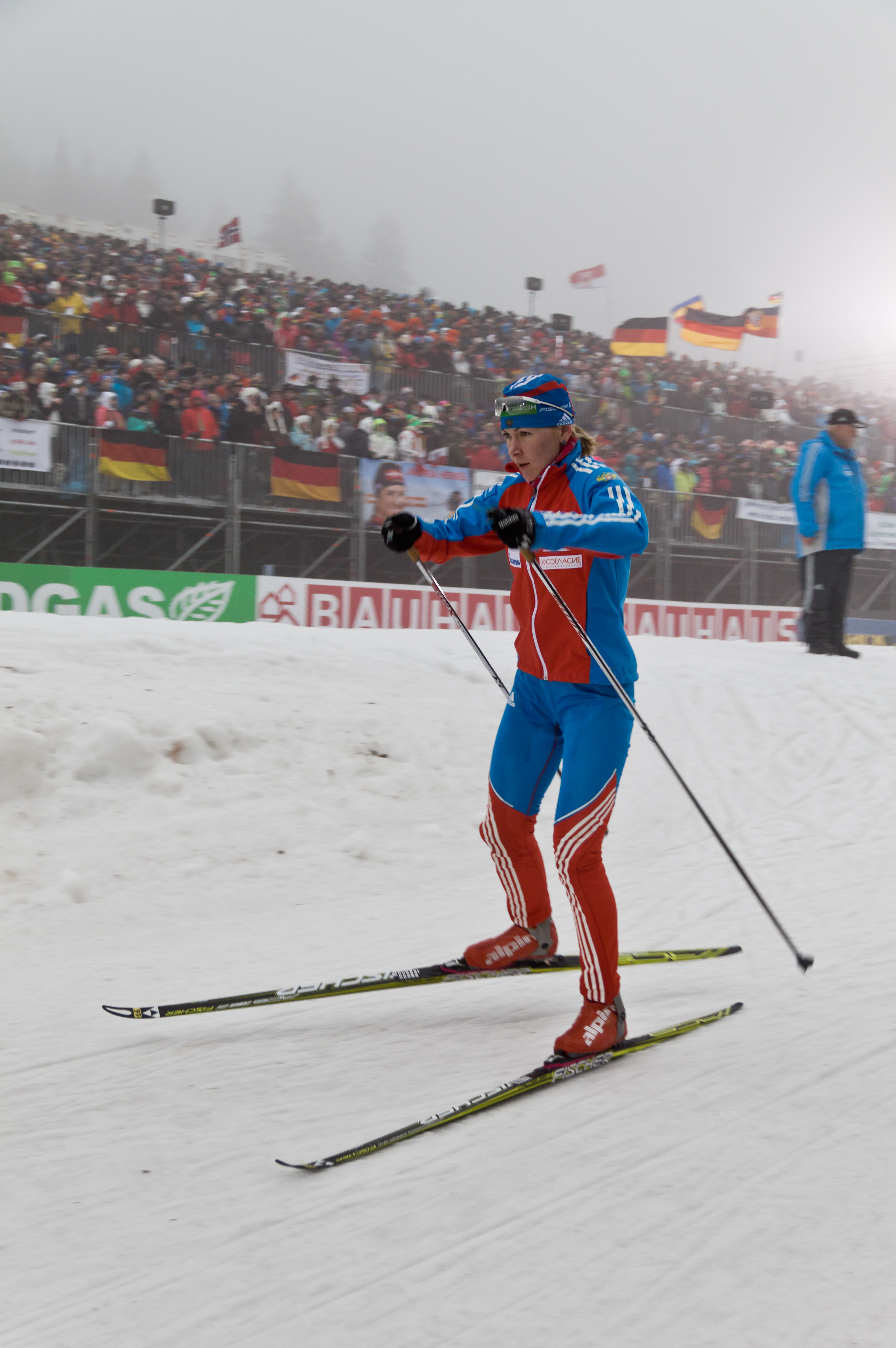 Russian biathlete Glazyrina Ekaterina before the world cup pursuit race in Oberhof.